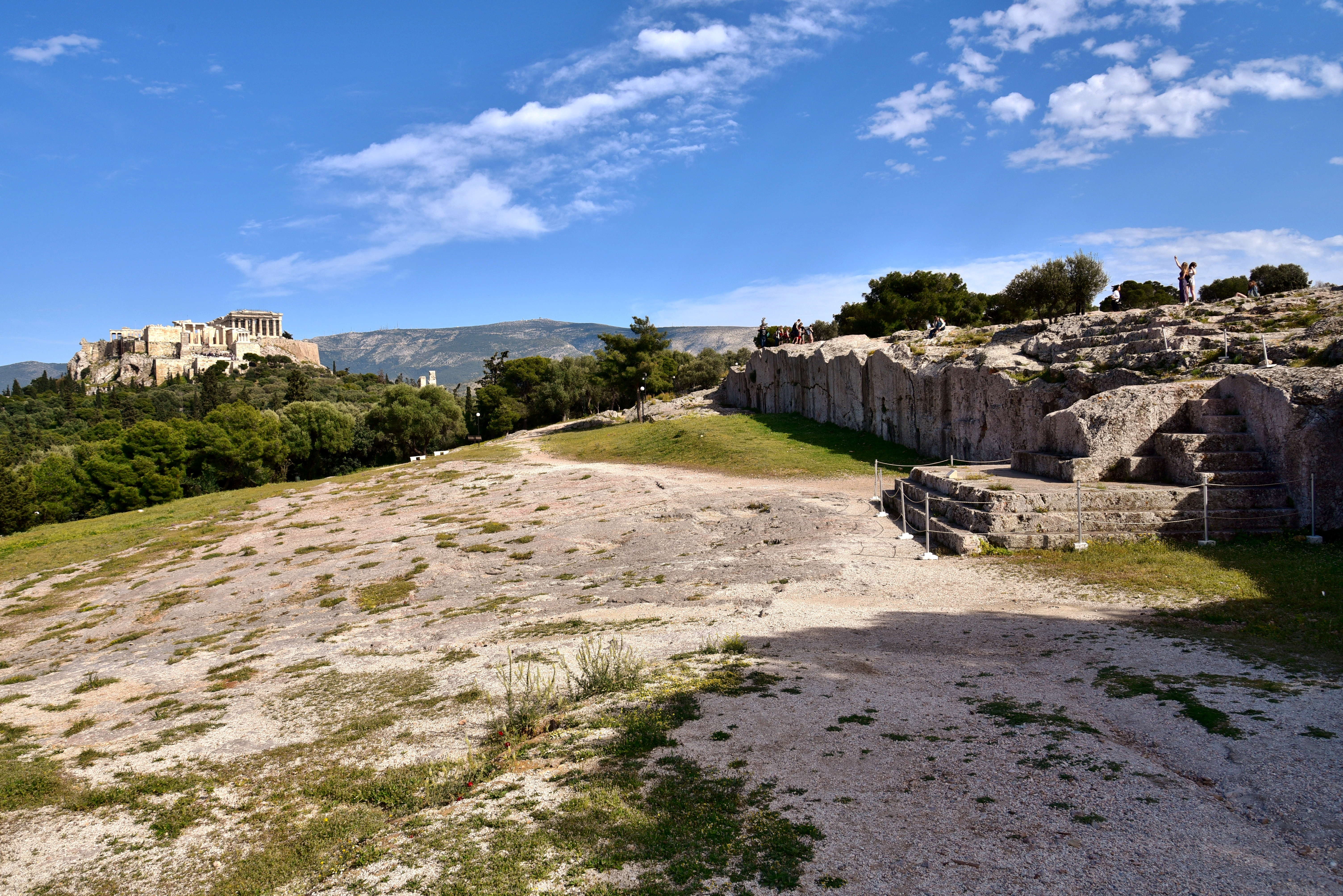 View of the Pnyx, Athens